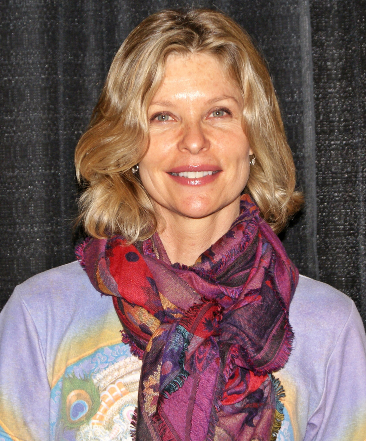 Kate Vernon attending the Calgary Comic & Entertainment Expo in BMO Centre, Calgary, Alberta, Canada.